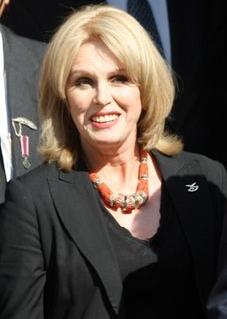 Joanna Lumley (2009)